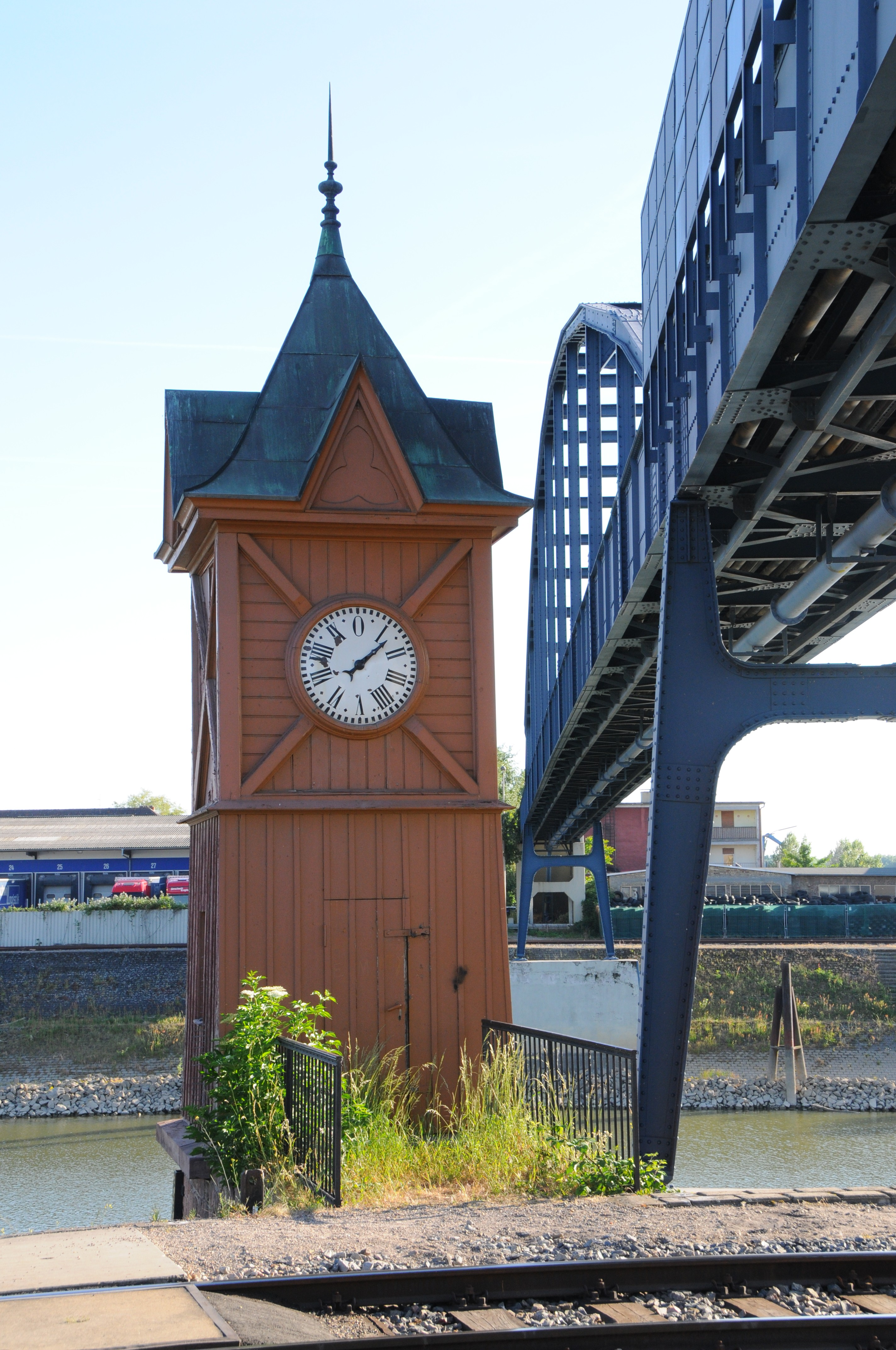 Stream gauge Mannheim (Germany), Rheinau habor